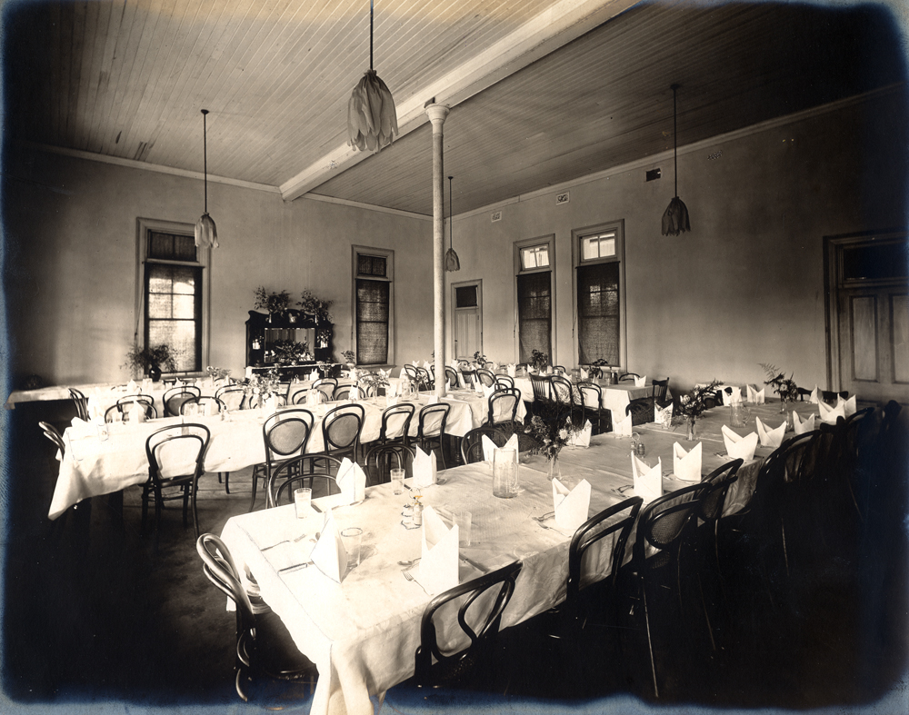 Ipswich Girls Grammar School, Dining Room, 1925